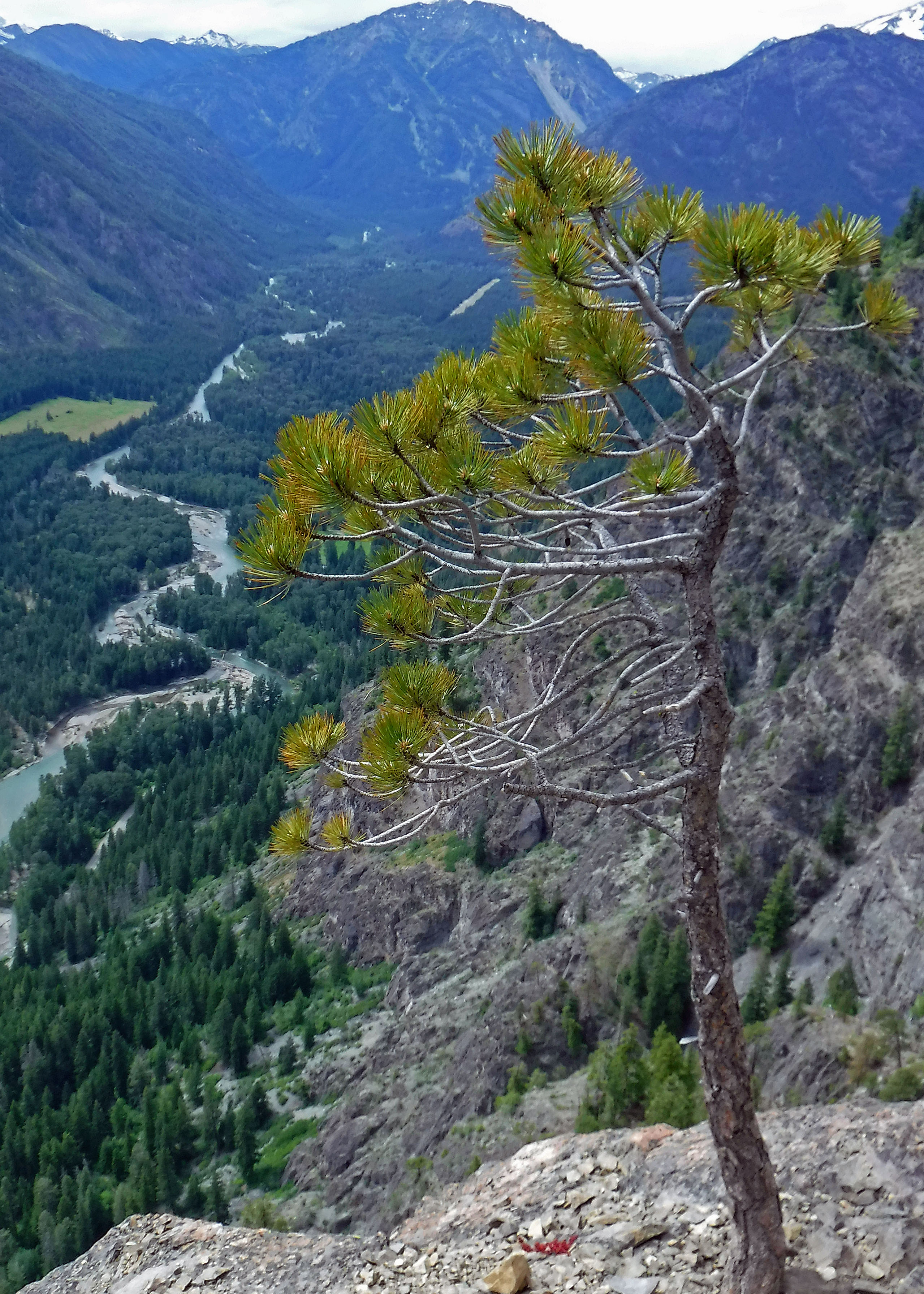 View from the 11-pitch sport climb, Prime Rib, overlooking the Methow Valley.